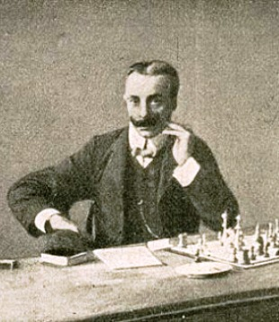 Hans Fahrni (1874-1939), Swiss chess master and composer